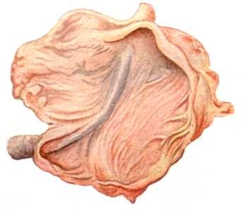 Cut through a healthy stomach